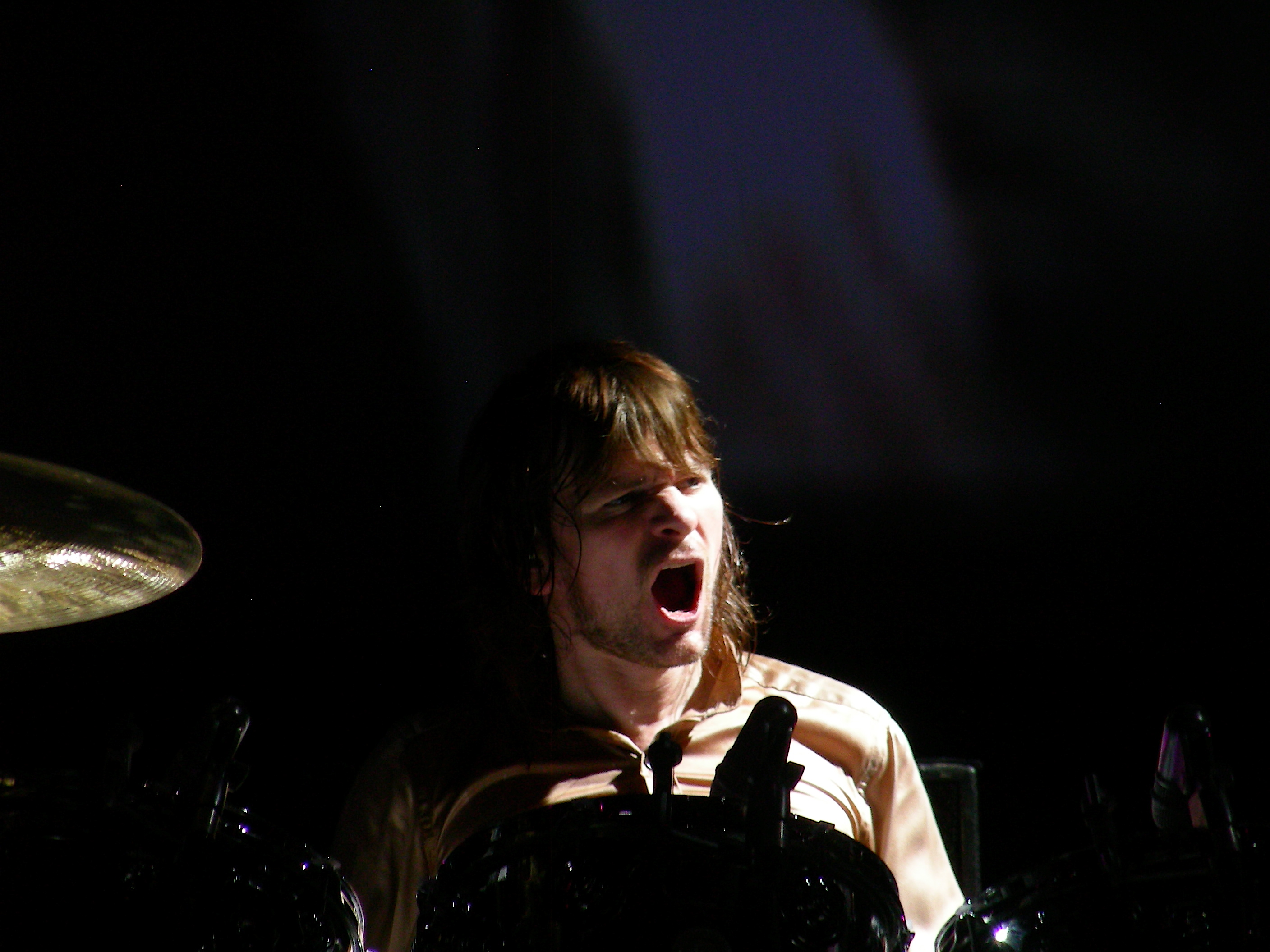 The Who Philadelphia PA Oct. 26, 2008 Photo of Zak Starkey, drummer